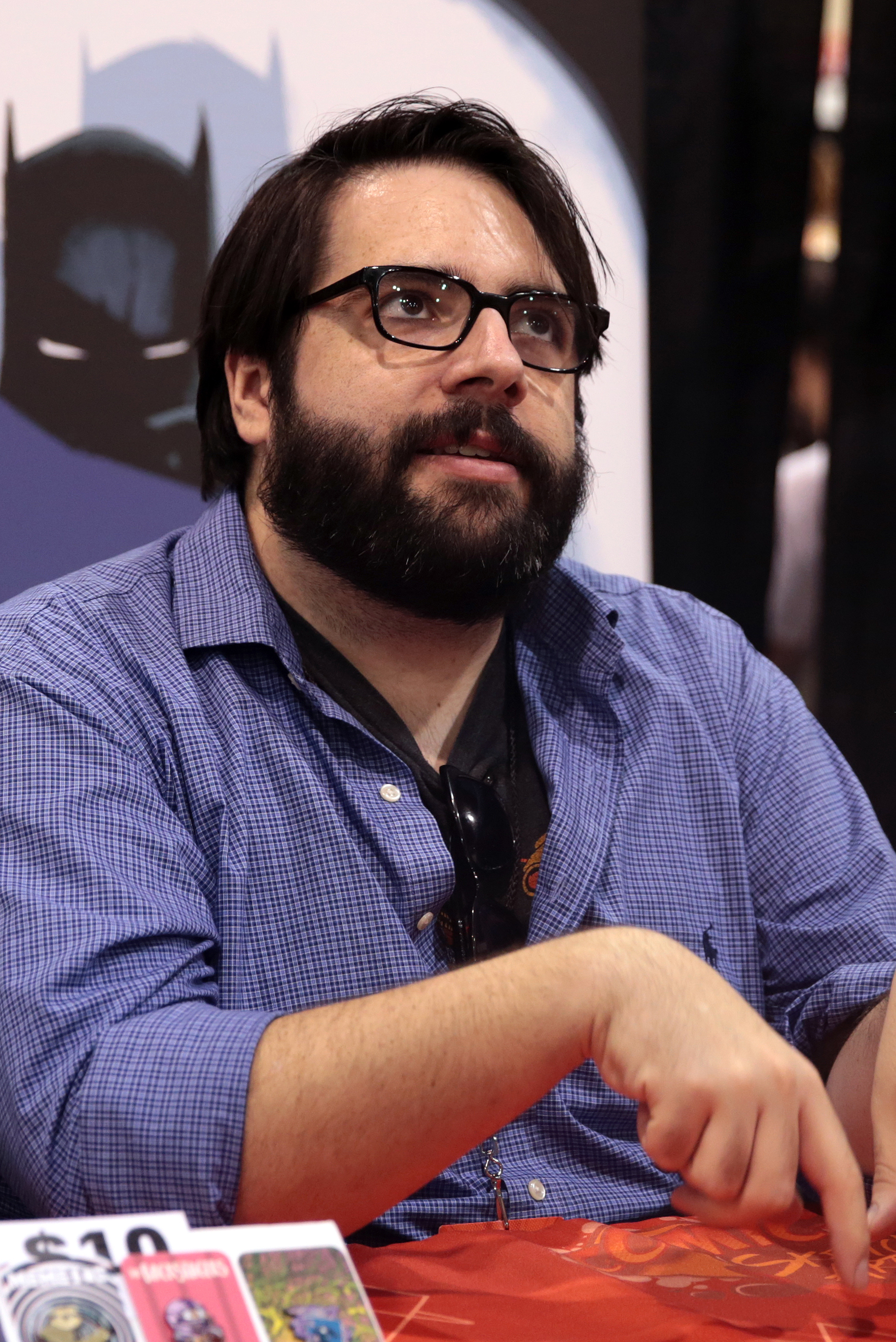 James Tynion IV speaking at the 2018 Phoenix Comic Fest in Phoenix, Arizona.